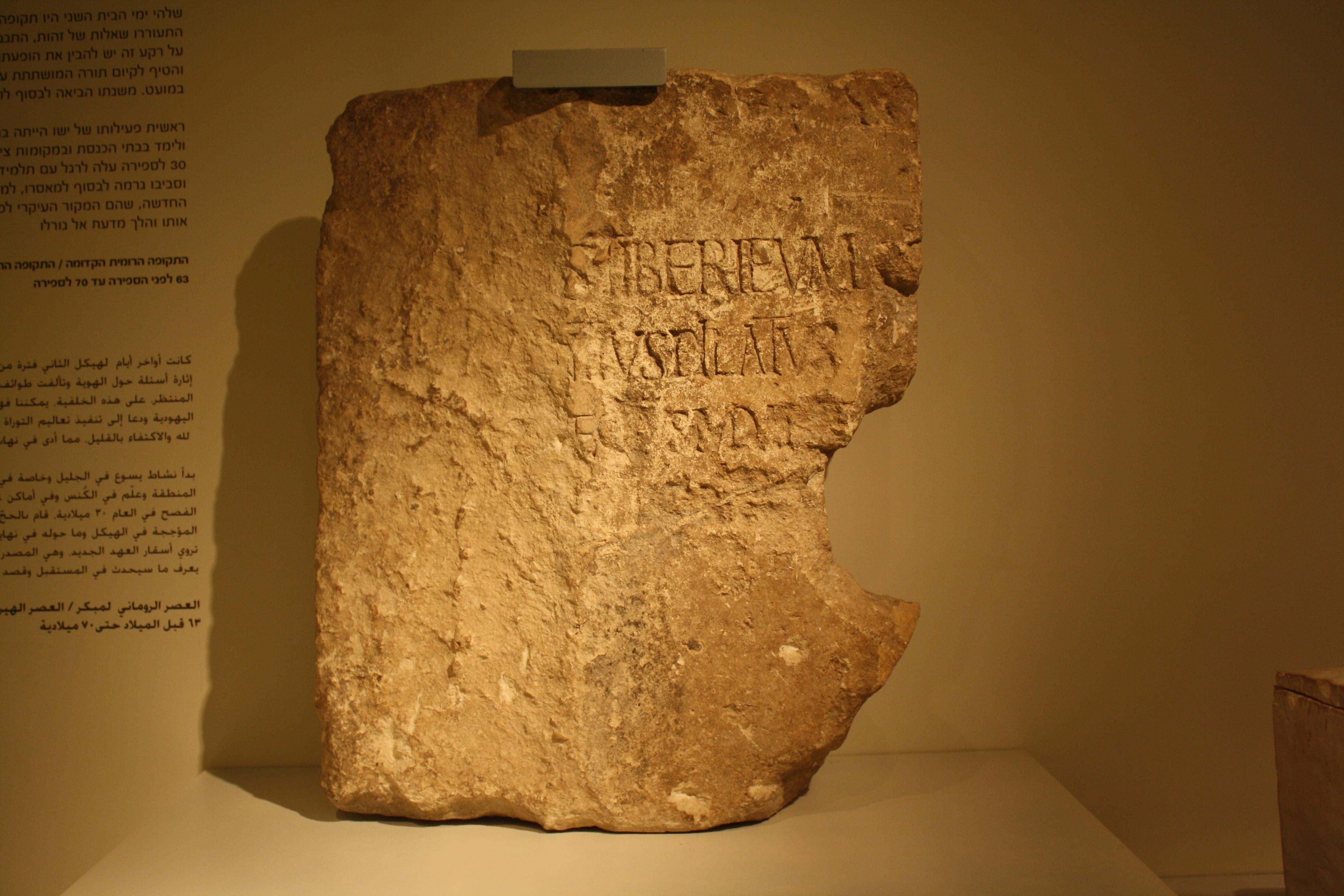 An inscription bearing the name of Pontius Pilate, Procurator of Judea, in the time of Yeshua of Nazareth